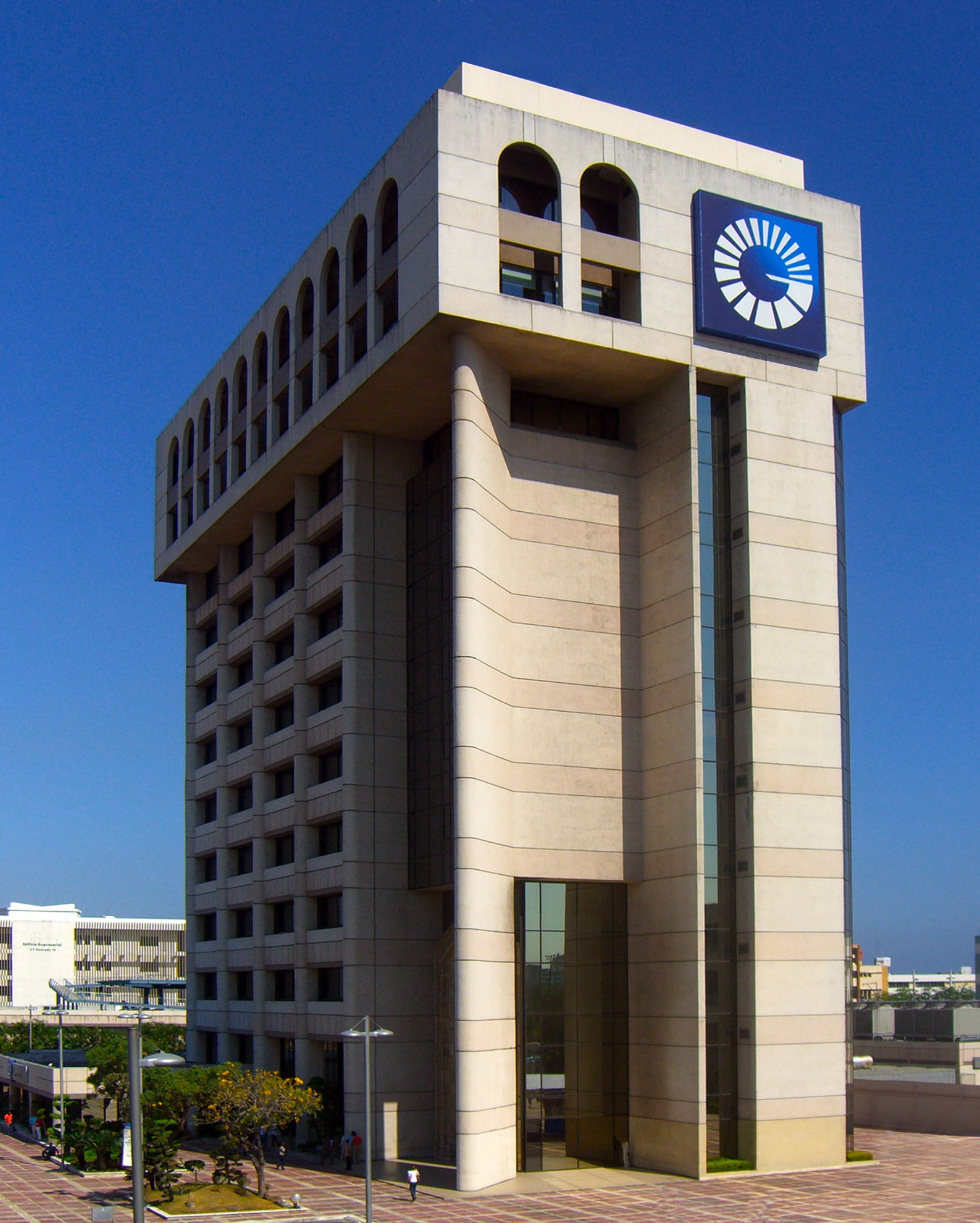 Sede Banco Popular Dominicano en la Avenida Maximo Gomez esq. Avenida John F. Kennedy